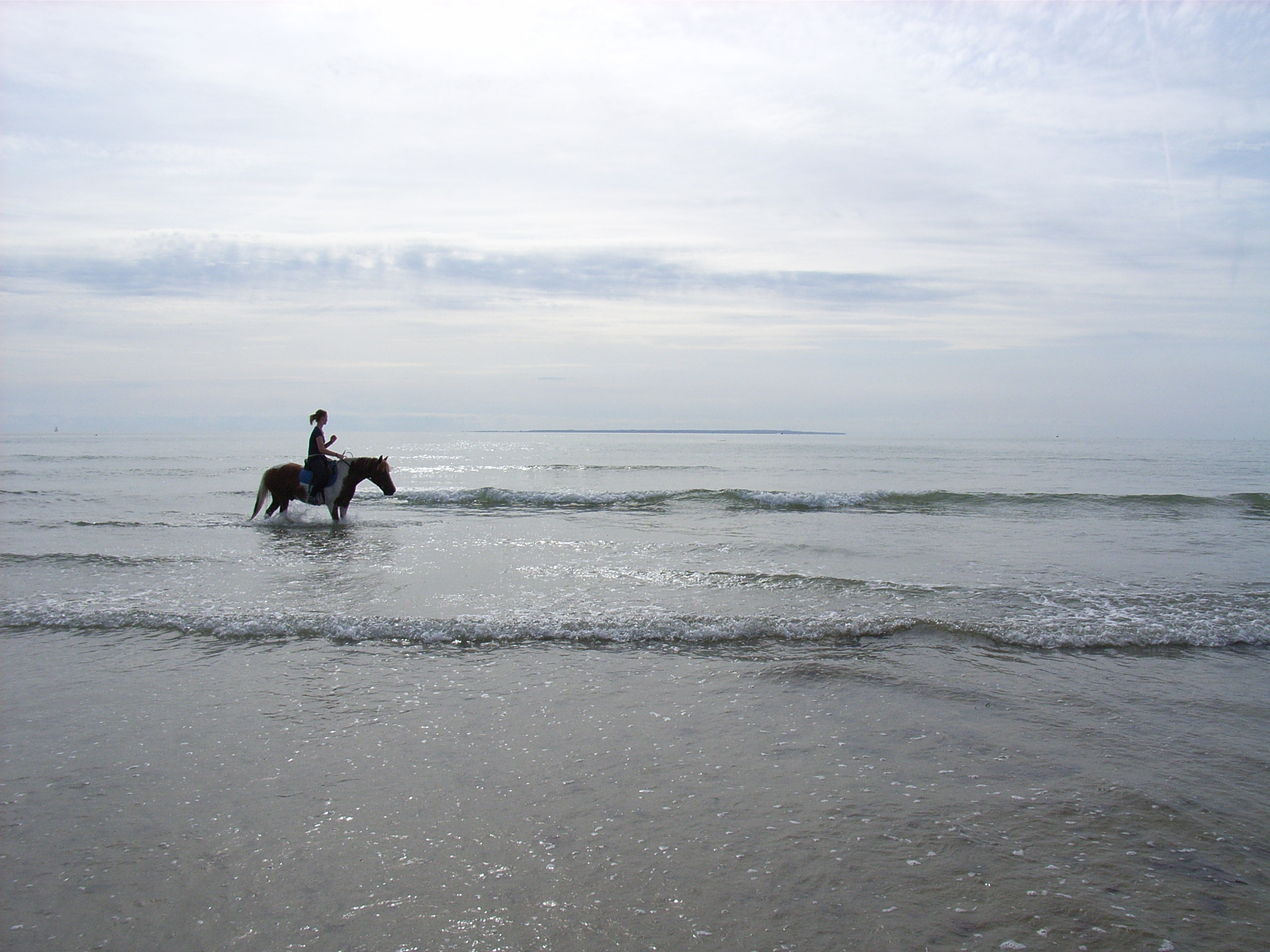 Saint Rémy des Landes, View to Jersey Island. Normandy, France.